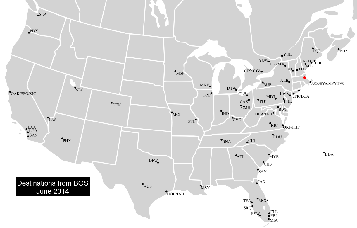 A map of destinations from Logan International Airport in the U.S. and Canada. This image was created with .